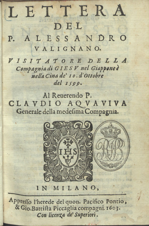 Letters of Alessamdro Valignano to Claudio Acquaviva